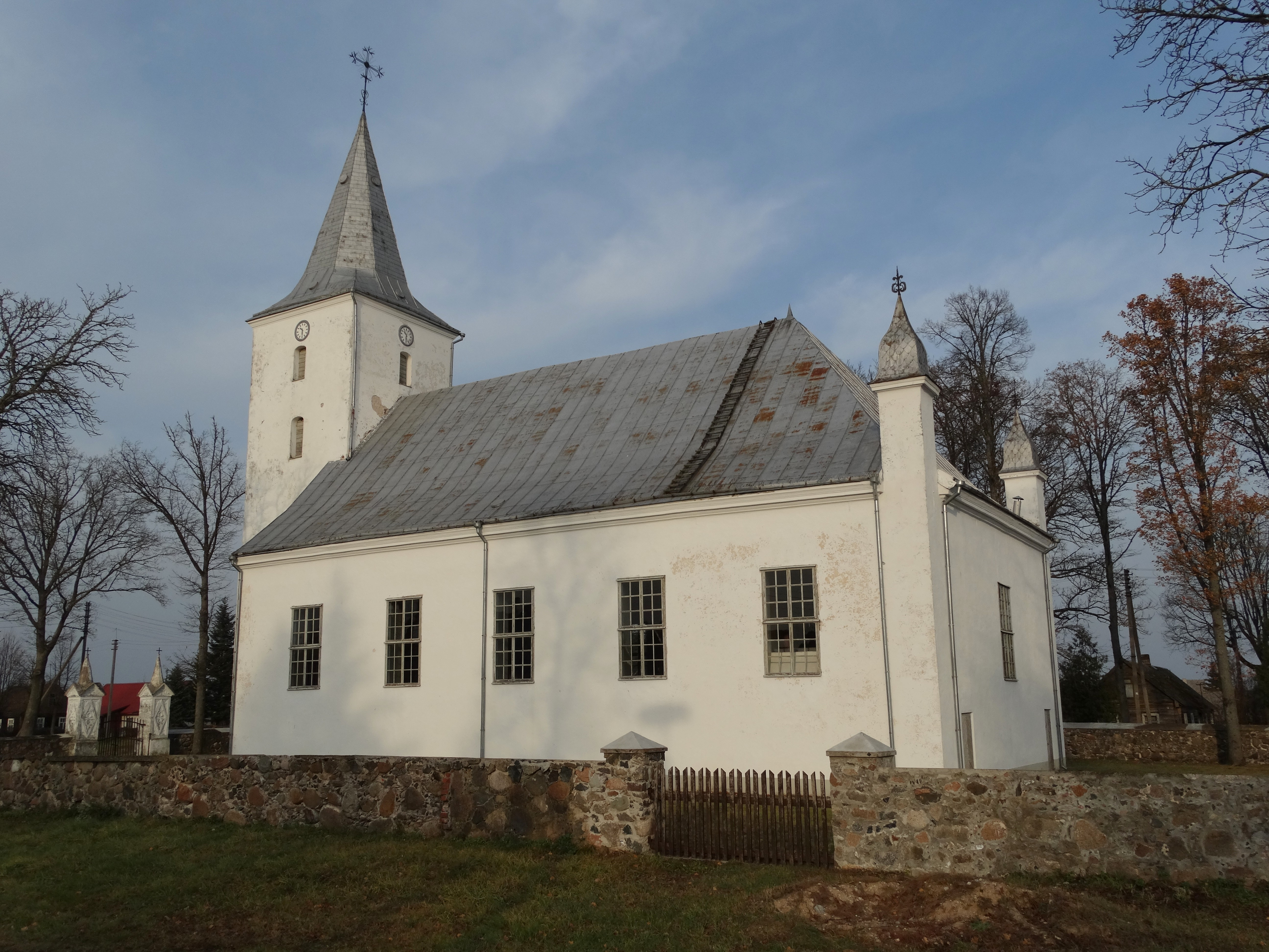 Evangelical Reformed Church, Papilys, Biržai district, Lithuania